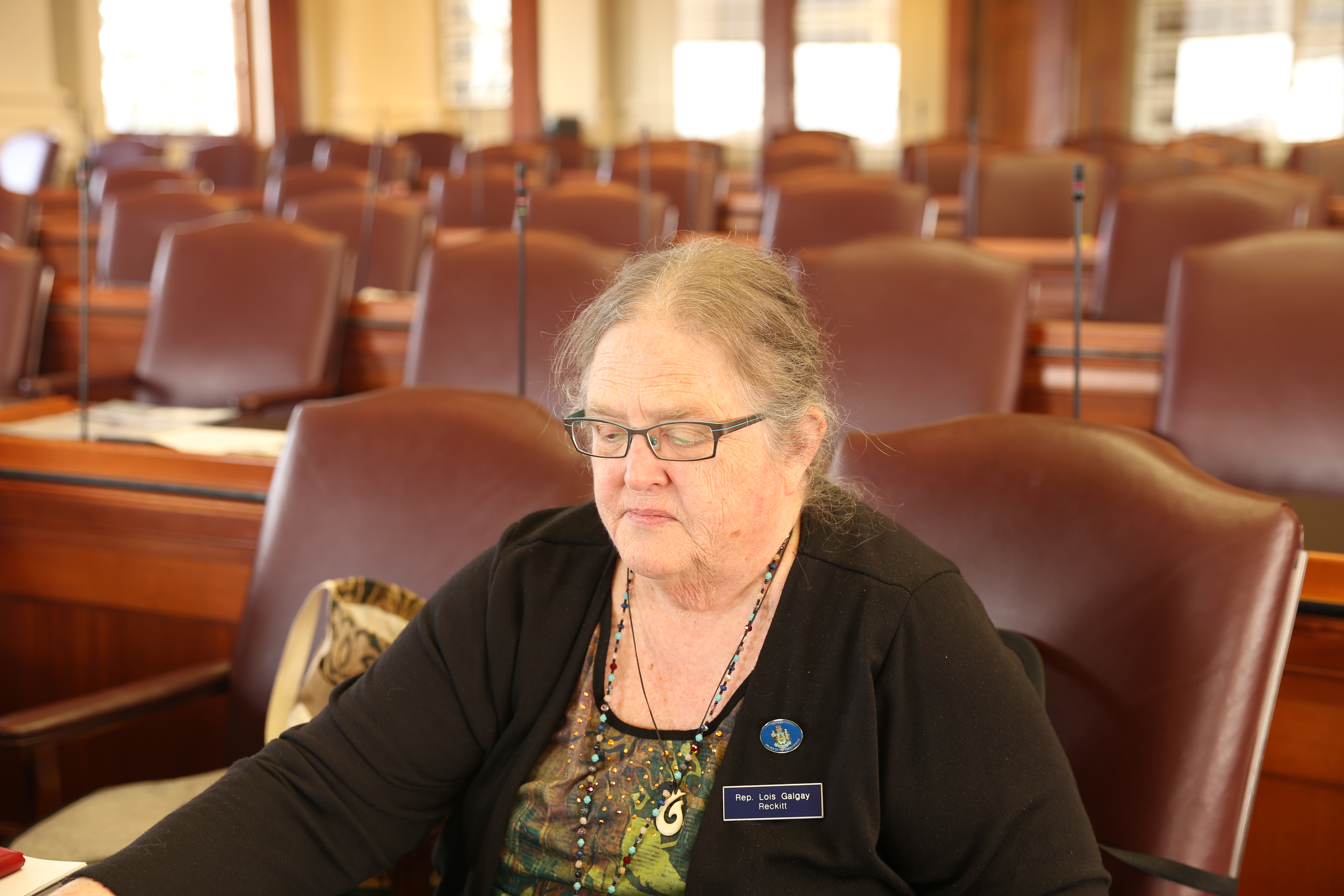 Maine State Representative Lois Galgay Reckitt